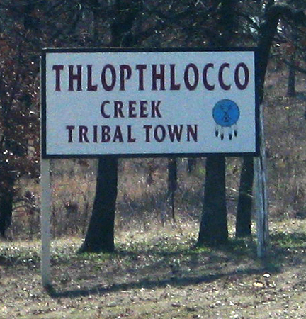 Sign for Thlopthlocco Tribal Town, Okemah, Oklahoma